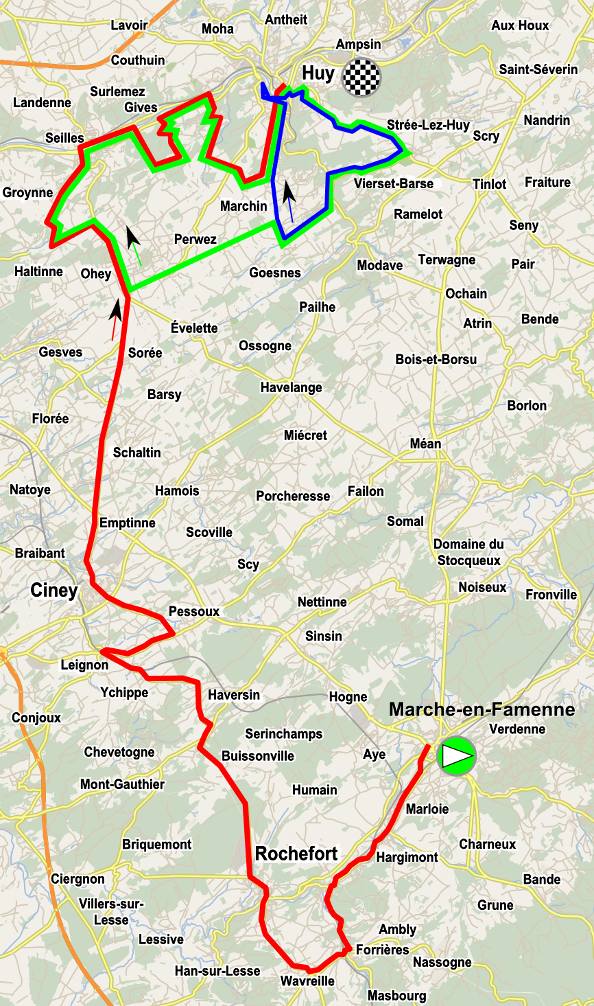 Overview map of the Flèche wallonne 2016.